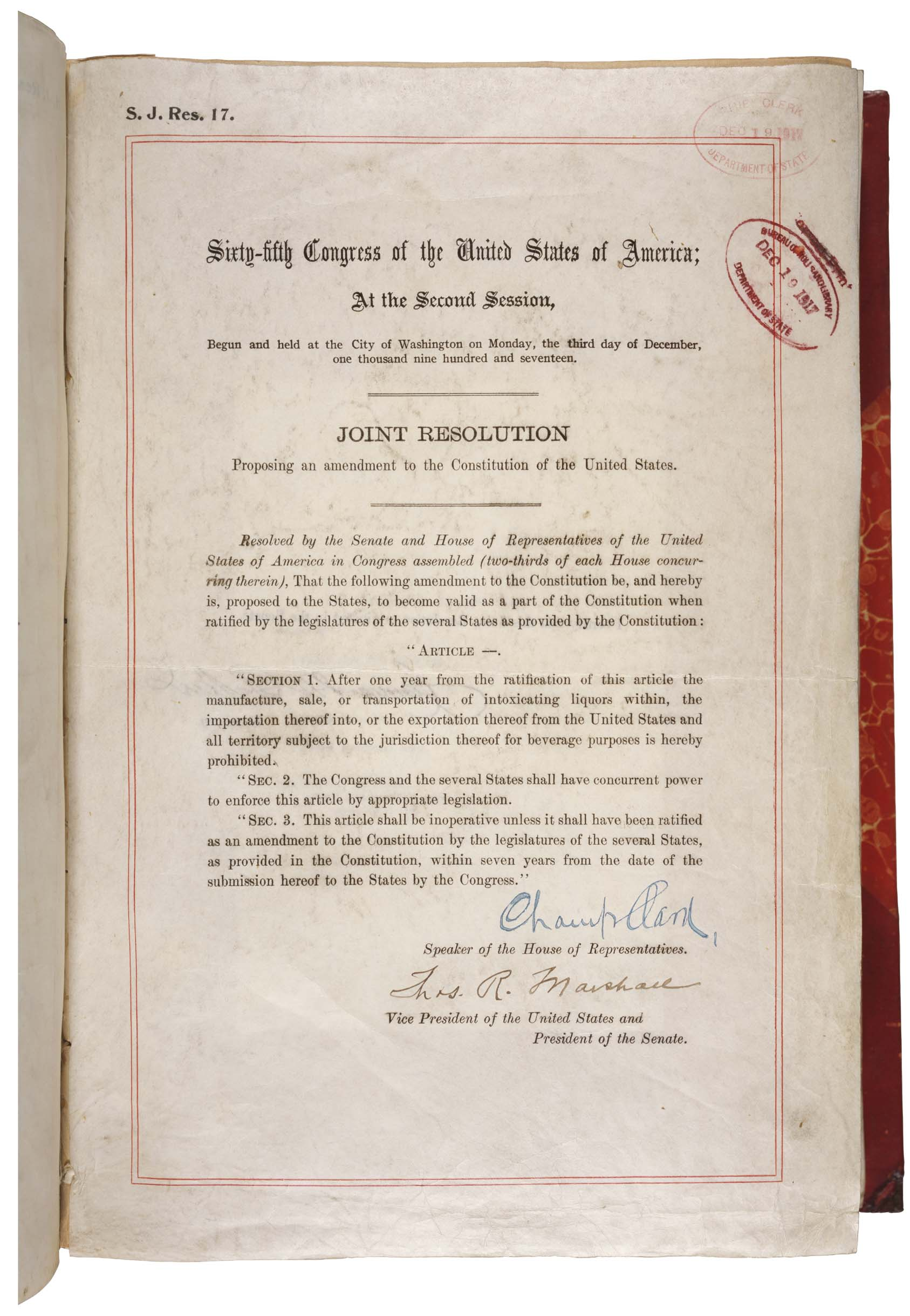 a page in an unidentified book